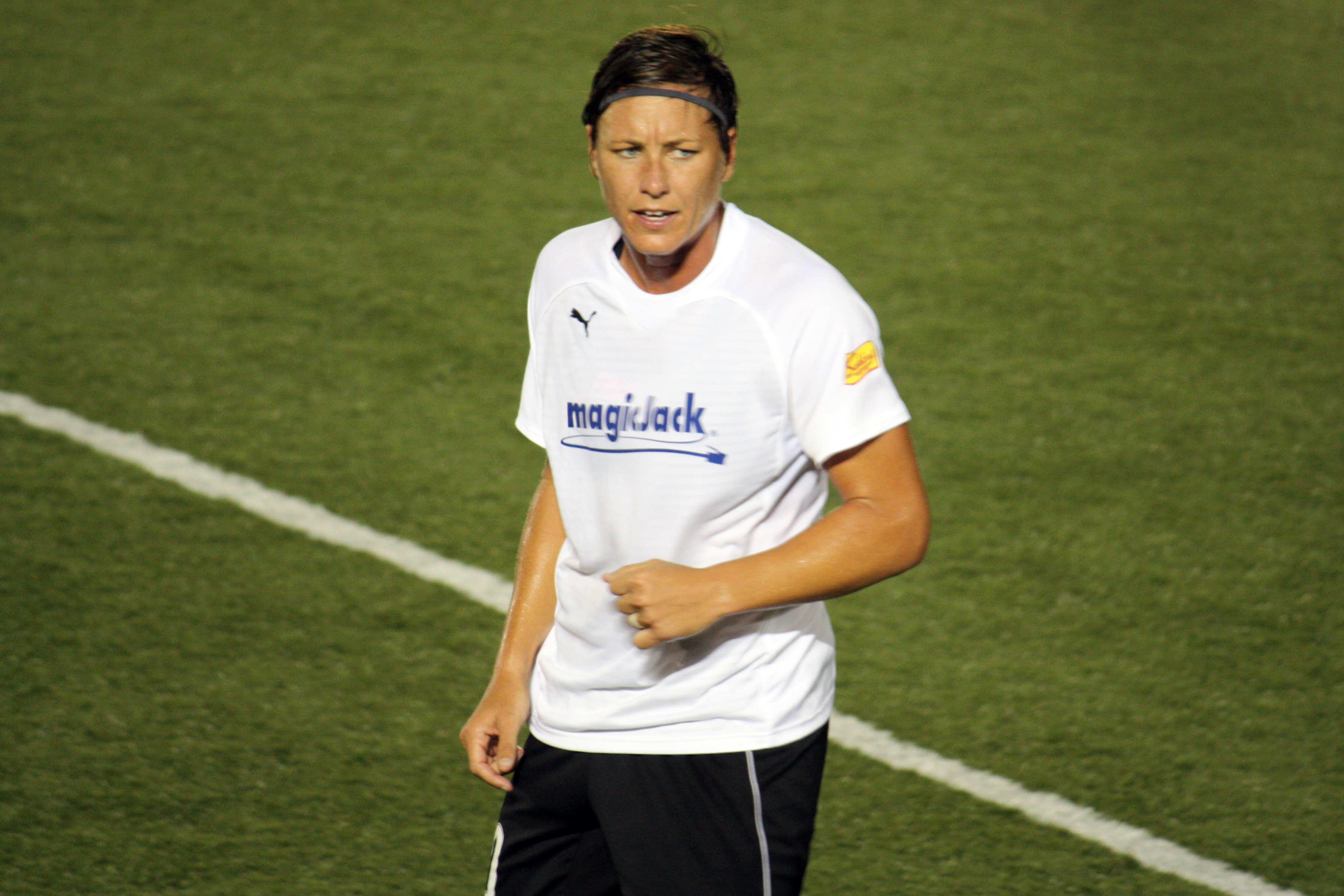 Abby Wambach during magicJack's 2-0 win over the Boston Breakers, Saturday, August 6 at Harvard Stadium in Boston, Mass.